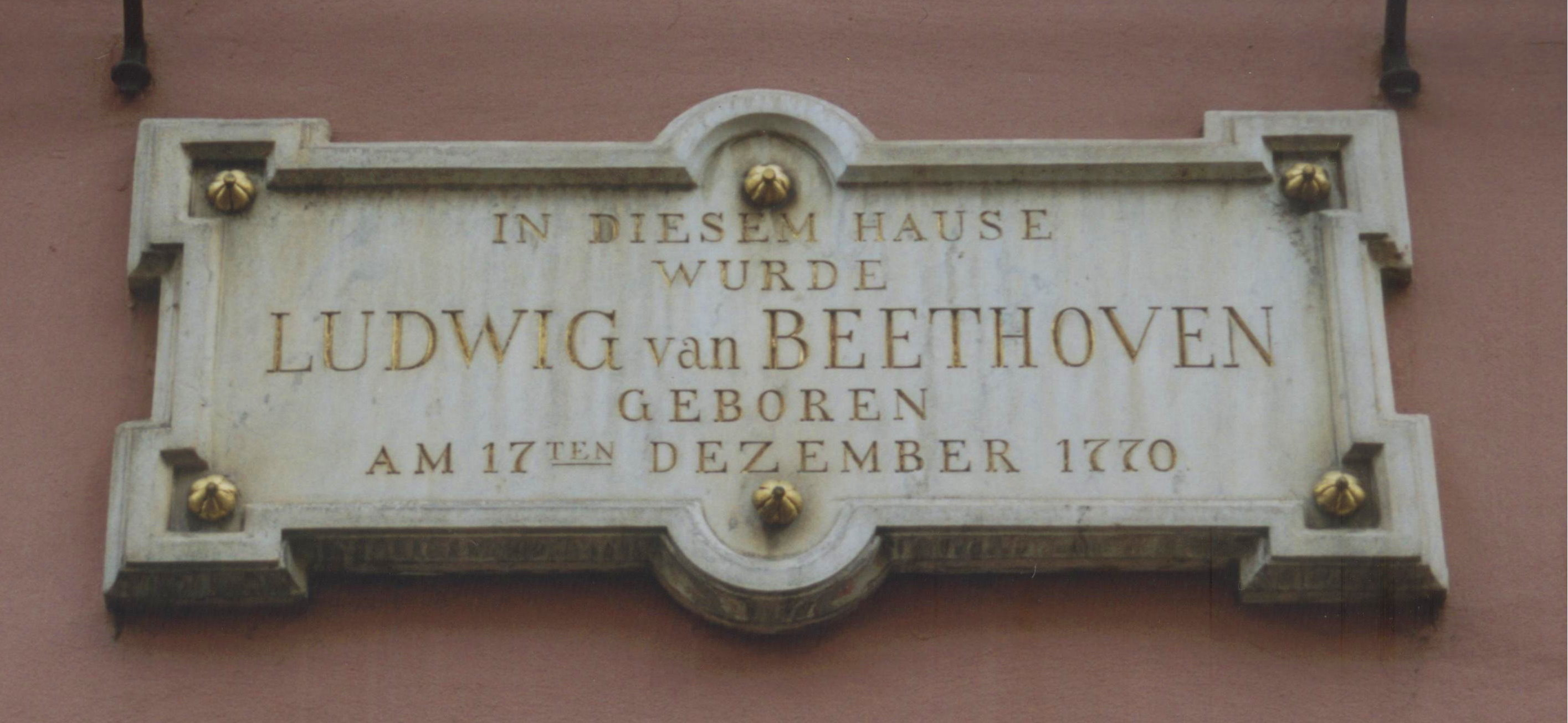 House of birth Ludwig van Beethoven, inscription, Bonn/Germany, Bonngasse.